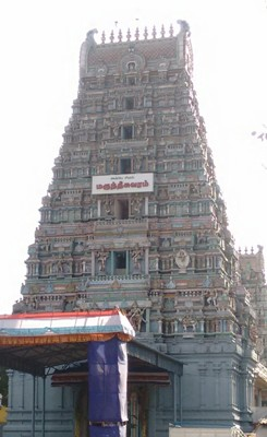 Tiruvanmiyurmarundeesartemple திருவான்மியூர் மருந்தீசுவரர் கோயில்